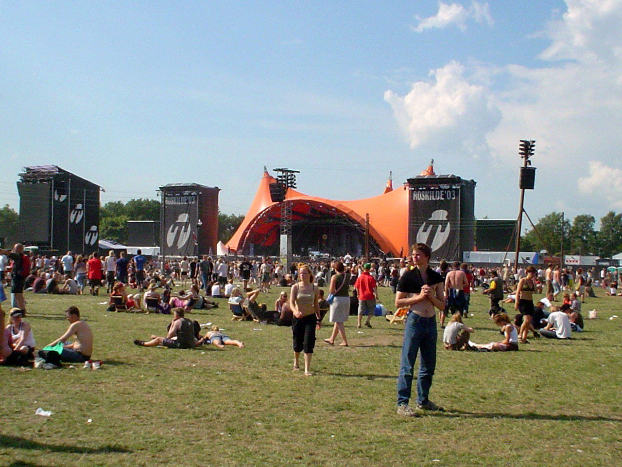 The '03 Roskilde Festival.